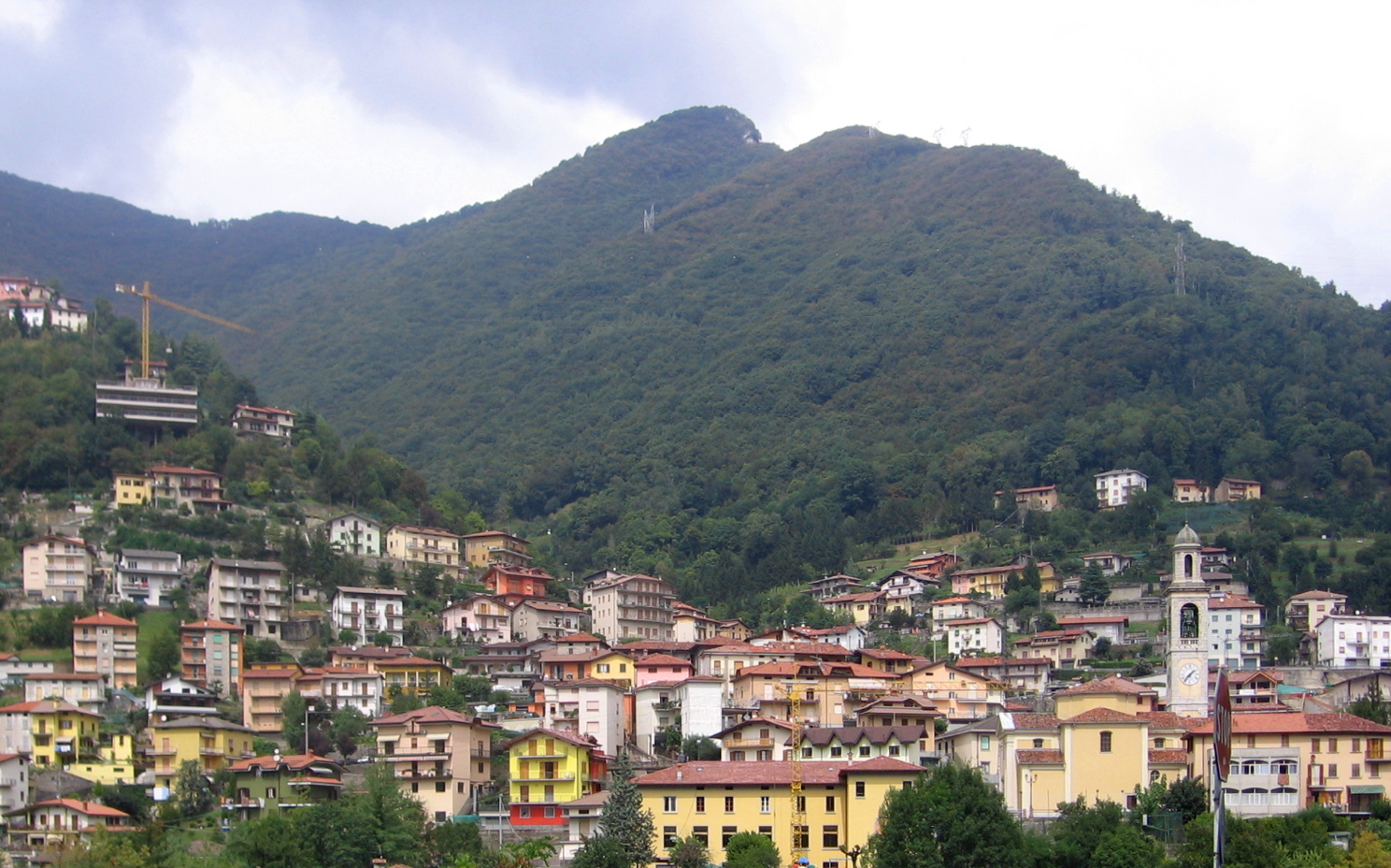 Ubiale Clanezzo, Bergamo, Italy - View of Ubiale from Sedrina